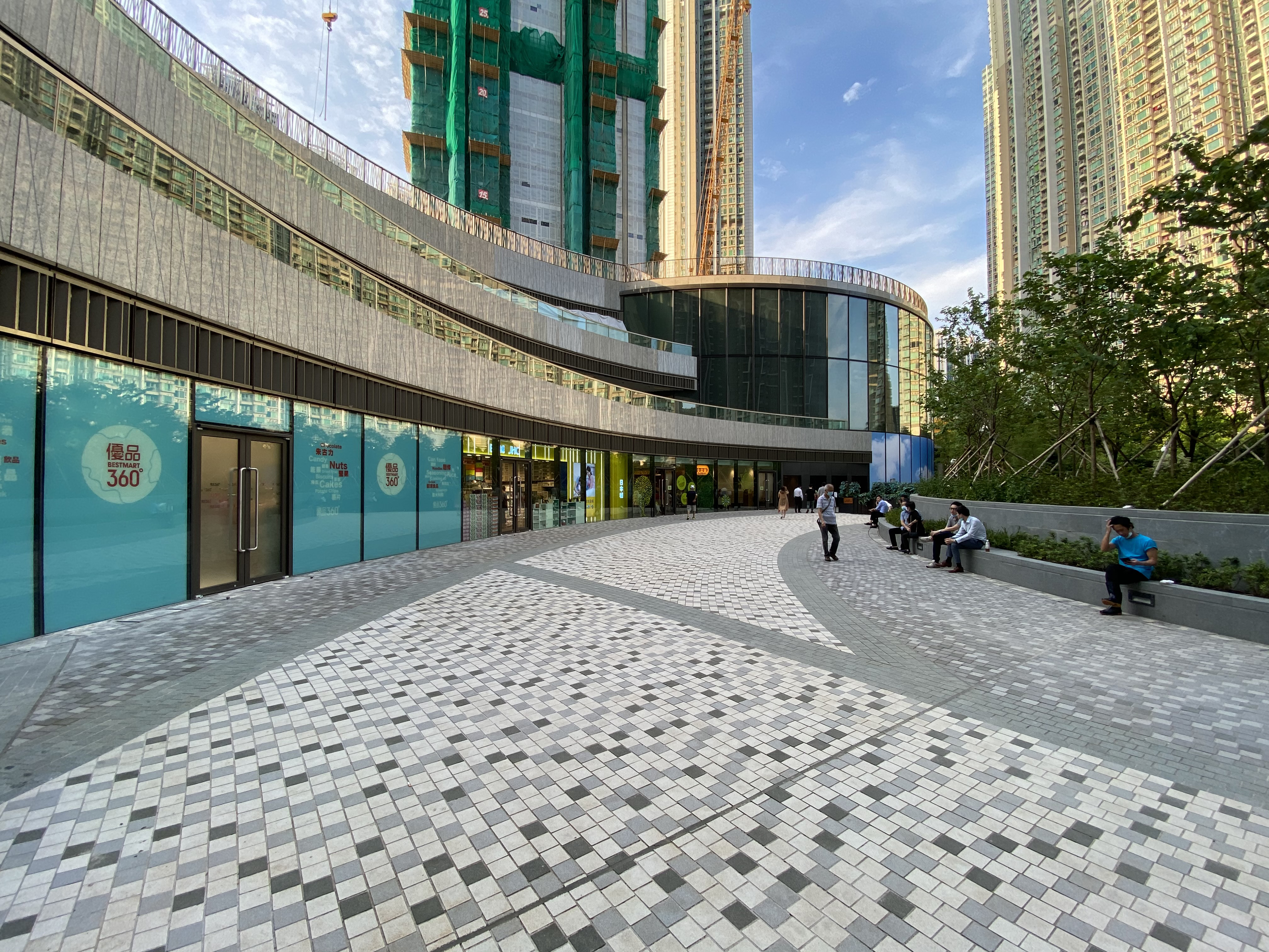 THE LOHAS Level 2 Outdoor area